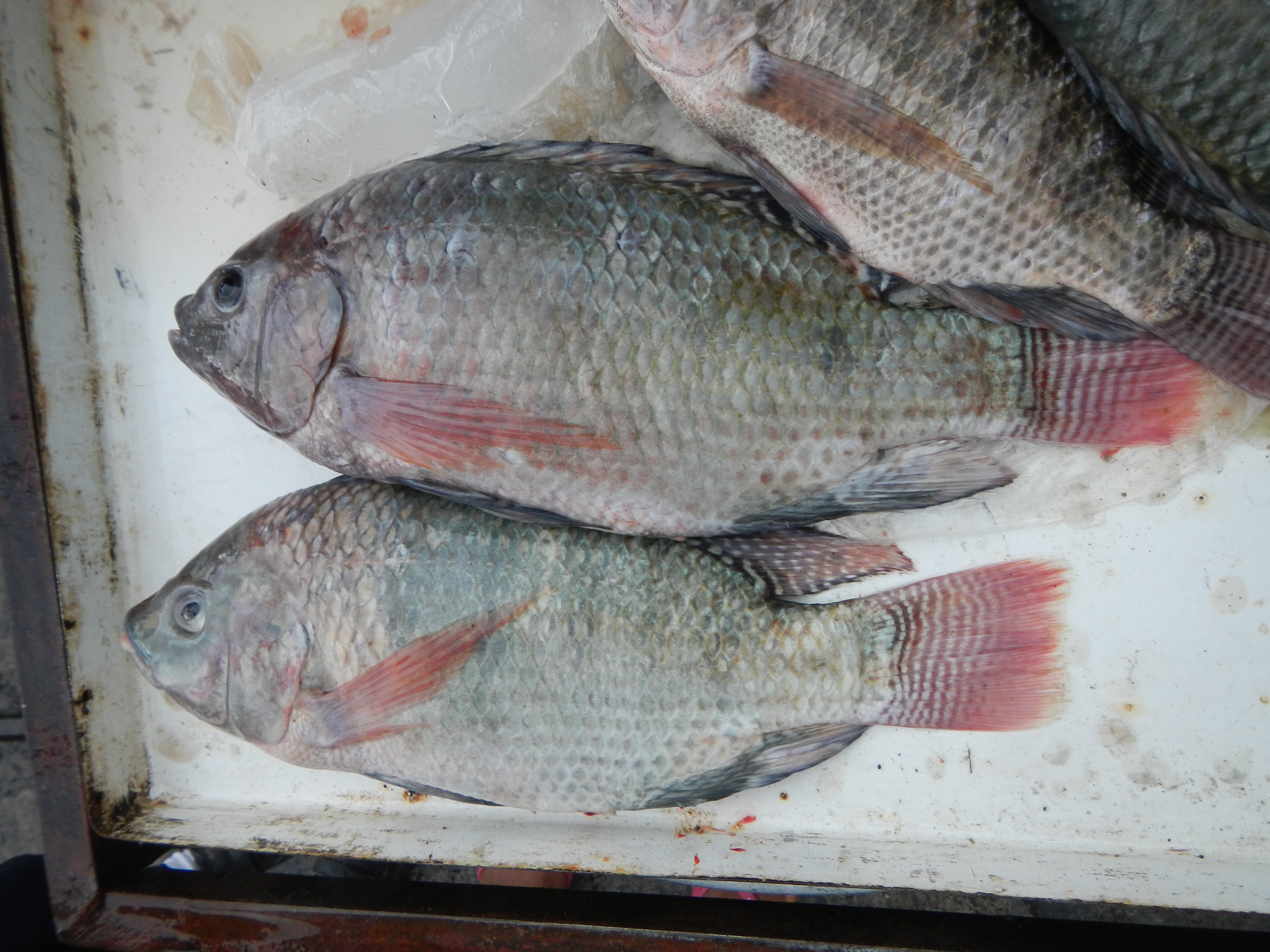 UploadWizard photos -- (General description, 3-dimension angle by angle photography of this town, church & landmarks) -- Santa Maria, Laguna Town Hall, the River of under the Inayapan bridge ansd downtown center of the commercial centers of the tow, Tanghalang Gob. Jose D. Lina, Plaza, Basketball court, Centro, Commercial buildings, town centre, downtown -- of Santa Maria, Laguna [1] (a fourth class municipality in the province of Laguna,[2] Philippines, land area of 126 km2 [3] Coordinates: 14°30'35"N 121°25'51"E[4]) and the --- 1613 Nuestra Señora delos Angeles Parish Church of Santa Maria, Santa María de los Ángeles - Our Lady of the Angels Parish Church, Parokya ng Nuestra Señora de los Angeles, The Church of Santa Maria, Laguna -- belongs to the Roman Catholic Diocese of San Pablo[5] - Vicariate of Saints Peter and Paul Episcopal District IV [6] [7].